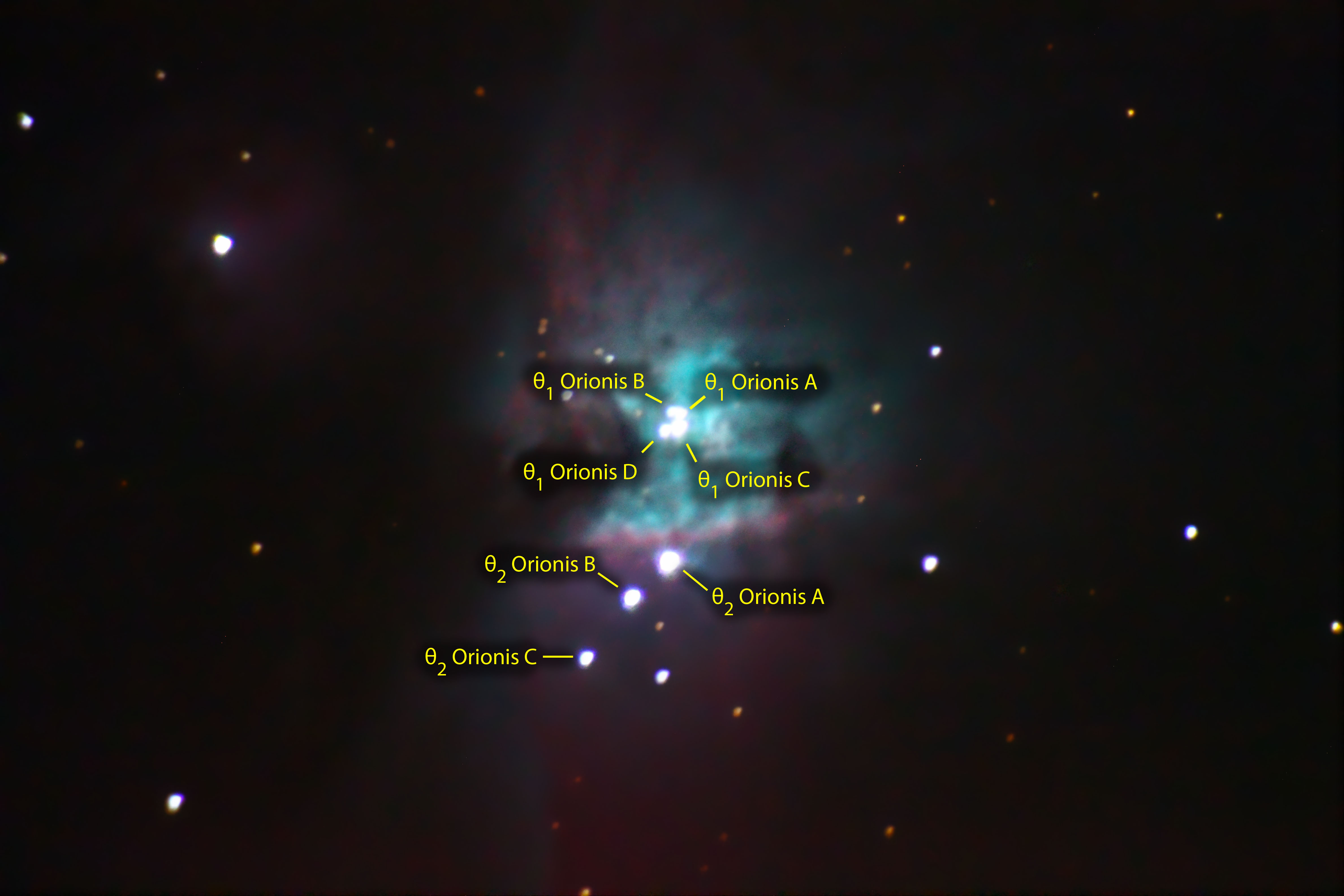 Orion Nebula - Core Details & Trapezium - Common Names This is a charted version of a shot i did, the uncharted version is posted here: Orion Nebula Core - Uncharted for comparison, also check out this detailed chart of all the stars: Orion Nebula - Charted. Basically i overlaid all the major stars in the vicinity so you can see the names.s You need to look at it full size though to read the labels. Ill also post below the description from the original: This is a shot of the Orion Nebula (NGC 1976 / The Great Nebula in Orion / M42) taken on November 12th 2010. This shot also includes a faint wisp of De Mairan's Nebula (NGC 1982 / M43). The shot was taken with an EQ-6 Mount, no Autoguider, and an 800mm focal length, 8" Aperture f/4 Newtonian Telescope using my Canon Rebel T1i as an imager. I used a 3x barlow without an eyepiece. The majority of the shot is the result of 6 stacked 30 second 3200 ISO shots. A stack of 15 additional shots were used on the Trapezium star cluster in the center. This shot was also post-processed to improve contrast and light levels. The primary goal was to show the detail of the inner core of the Orion Nebula. Taken by Jeffrey Phillips Freeman.